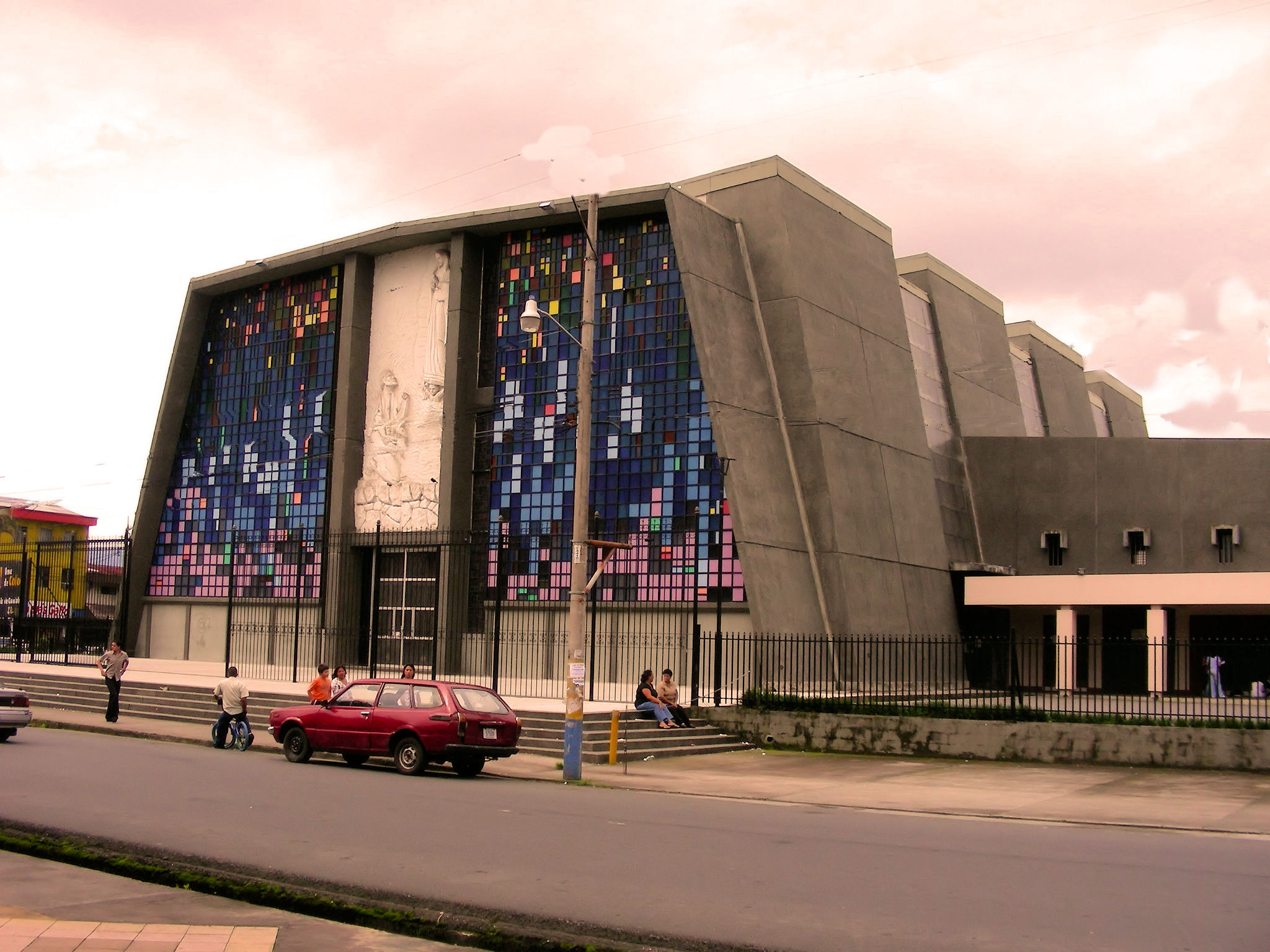 Church of Our Lady of Guadeloupe, Guadeloupe, San Jose, Costa Rica